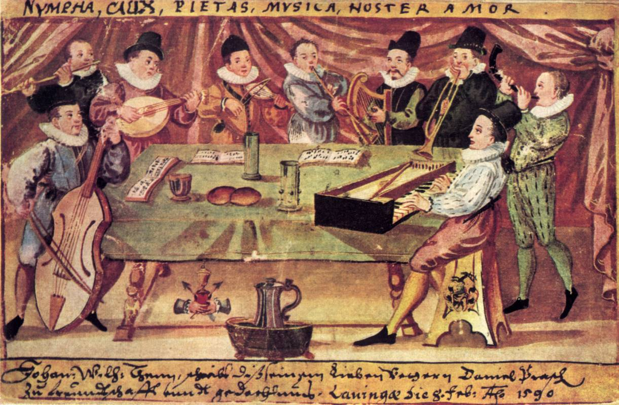 Collegium musicum from "Gymnasium illustre" at Lauingen, Germany, Tempera on paper